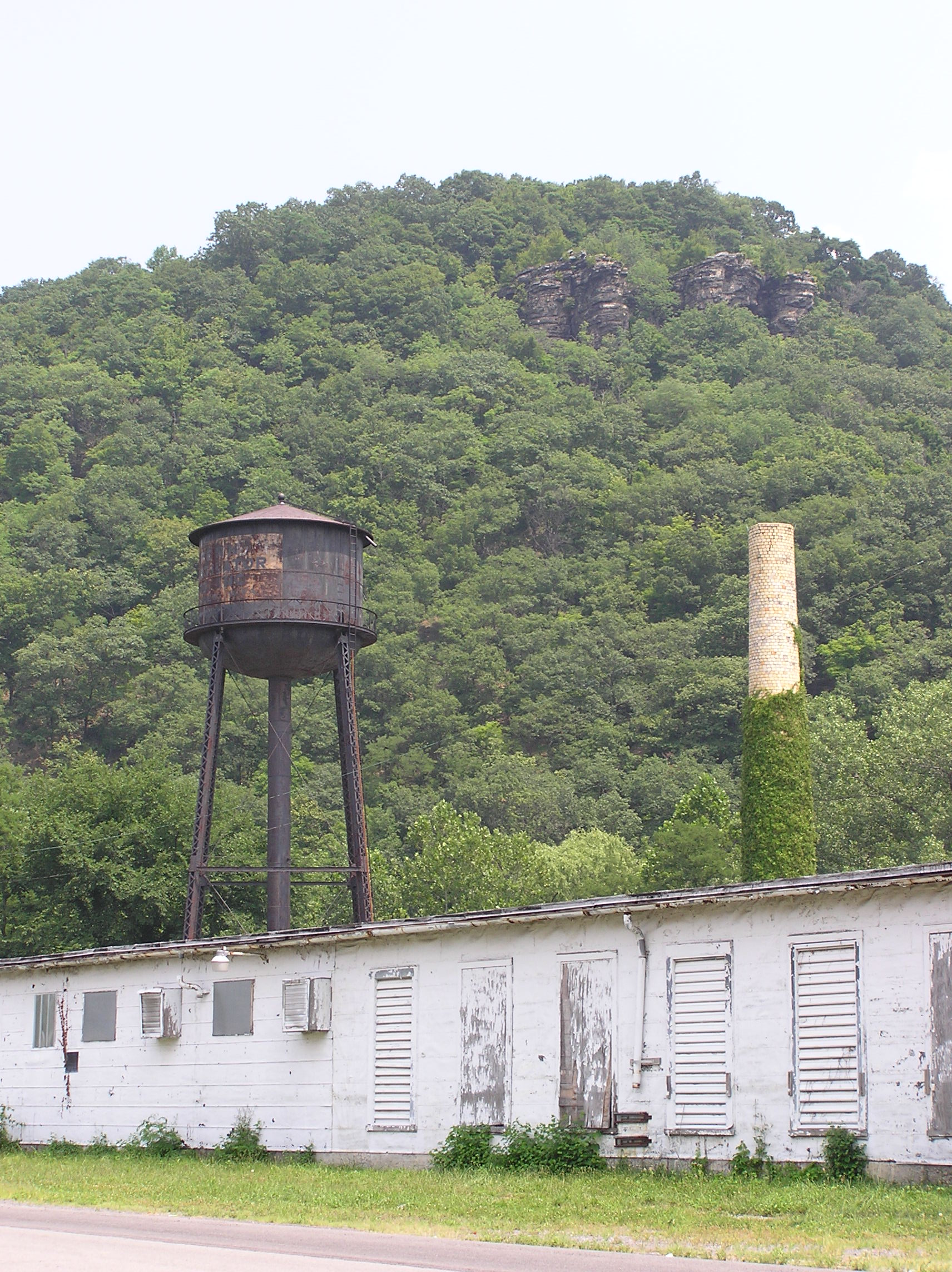 Remains of Penn Ventilator Plant in Keyser WV